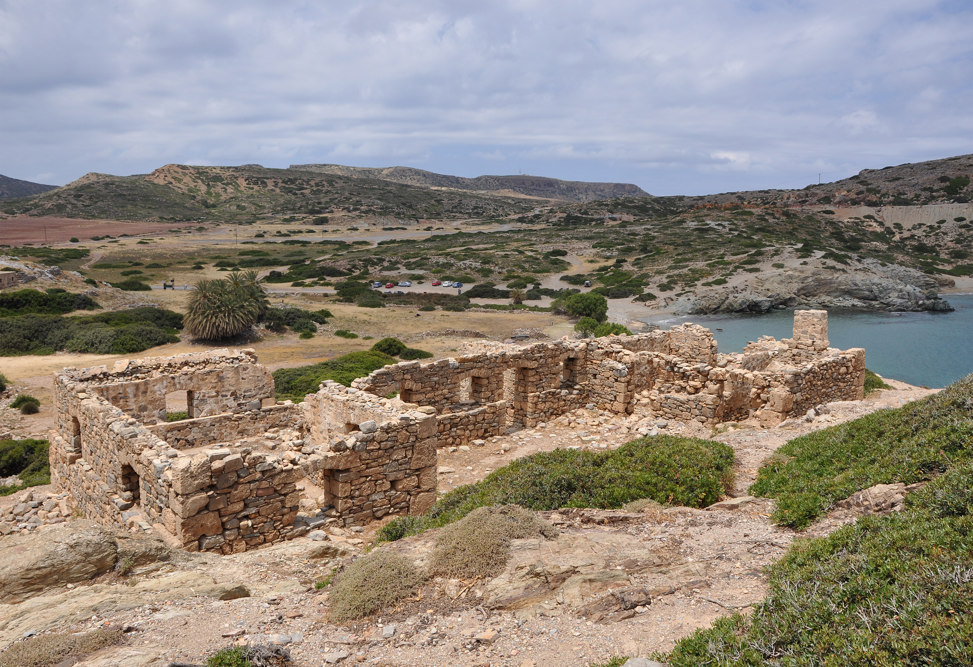 Itanos (Crete, Greece): archaeological site